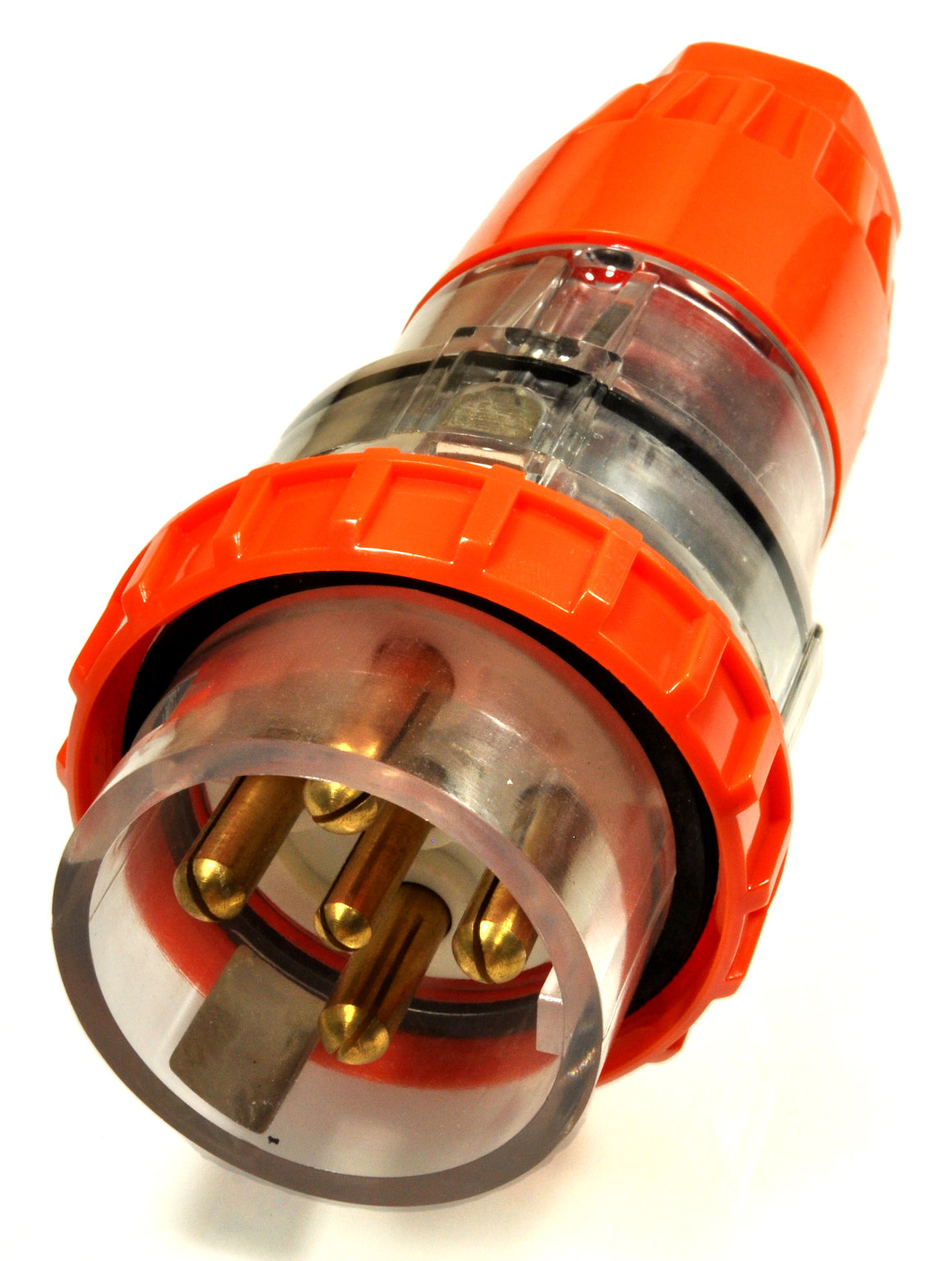 This mains plug is used in industry but also commercial and domestic settings where higher power appliances need to be used in environments such as factories and garages where water resistance and dust ingress protection are desired.